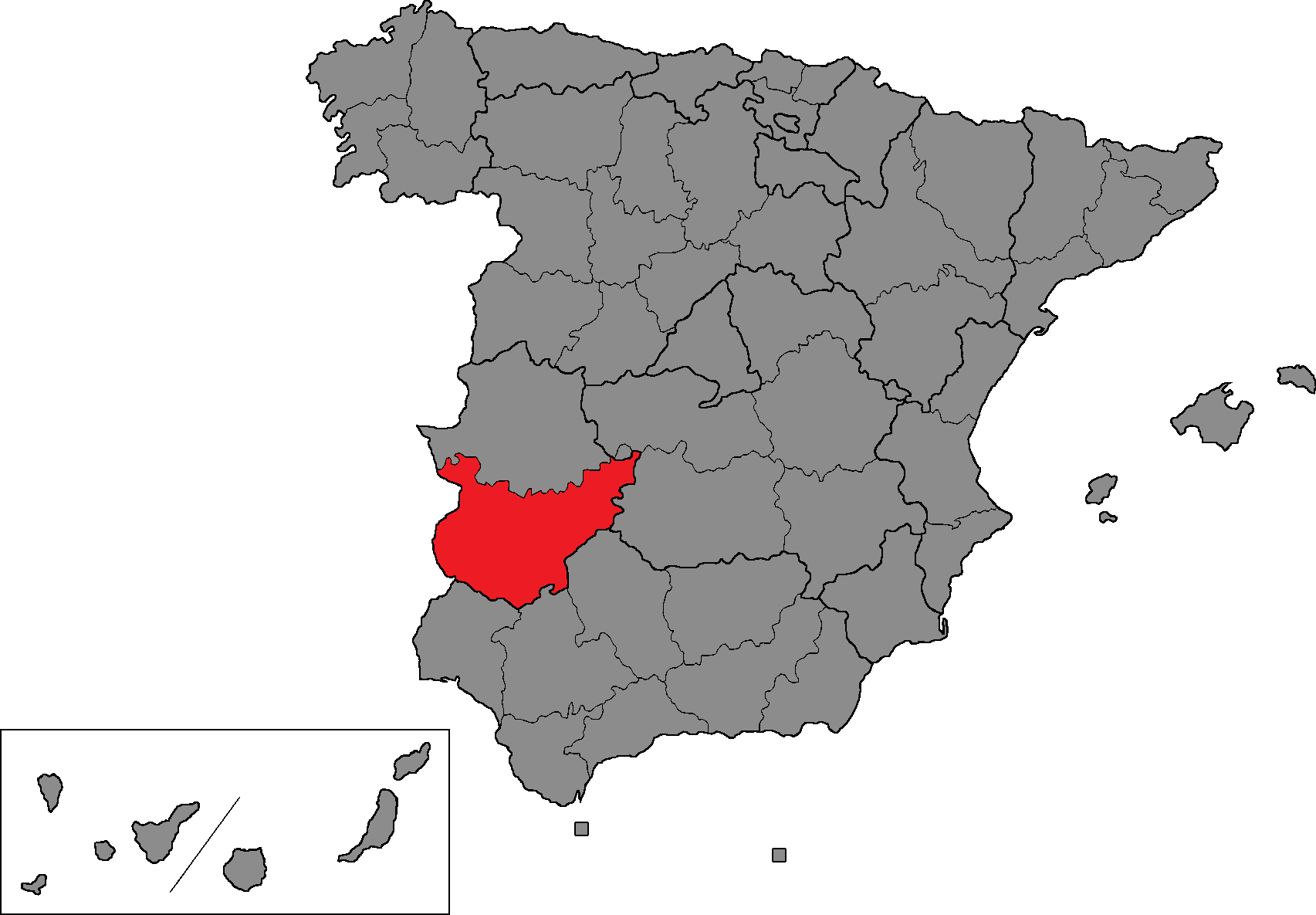 Spanish Congress of Deputies district of Badajoz.